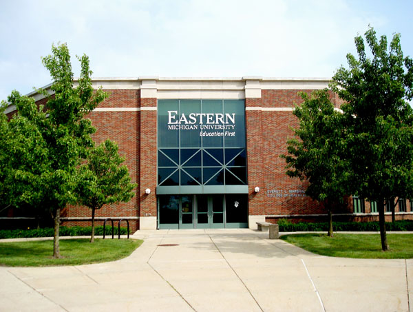 Marshall Hall at Eastern Michigan University in Ypsilanti Michigan